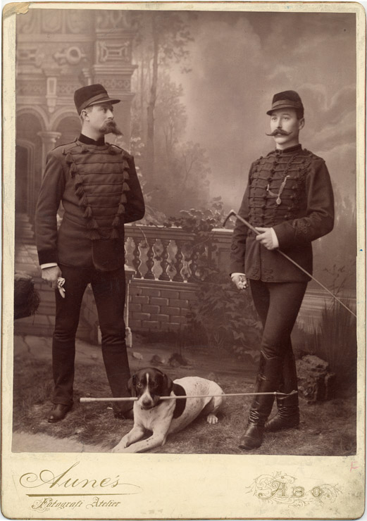 Photograph of the Swedish-Finnish circus managers John and Carl Ducander with a dog.